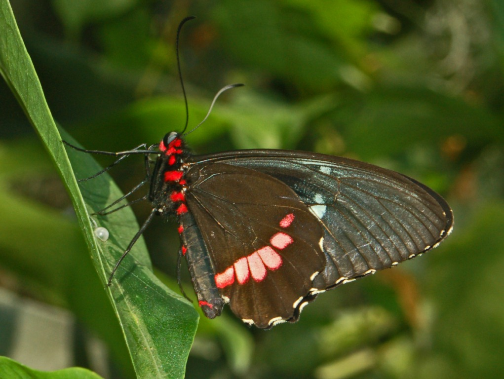 Parides iphidamas - Niagara Falls Conservatory